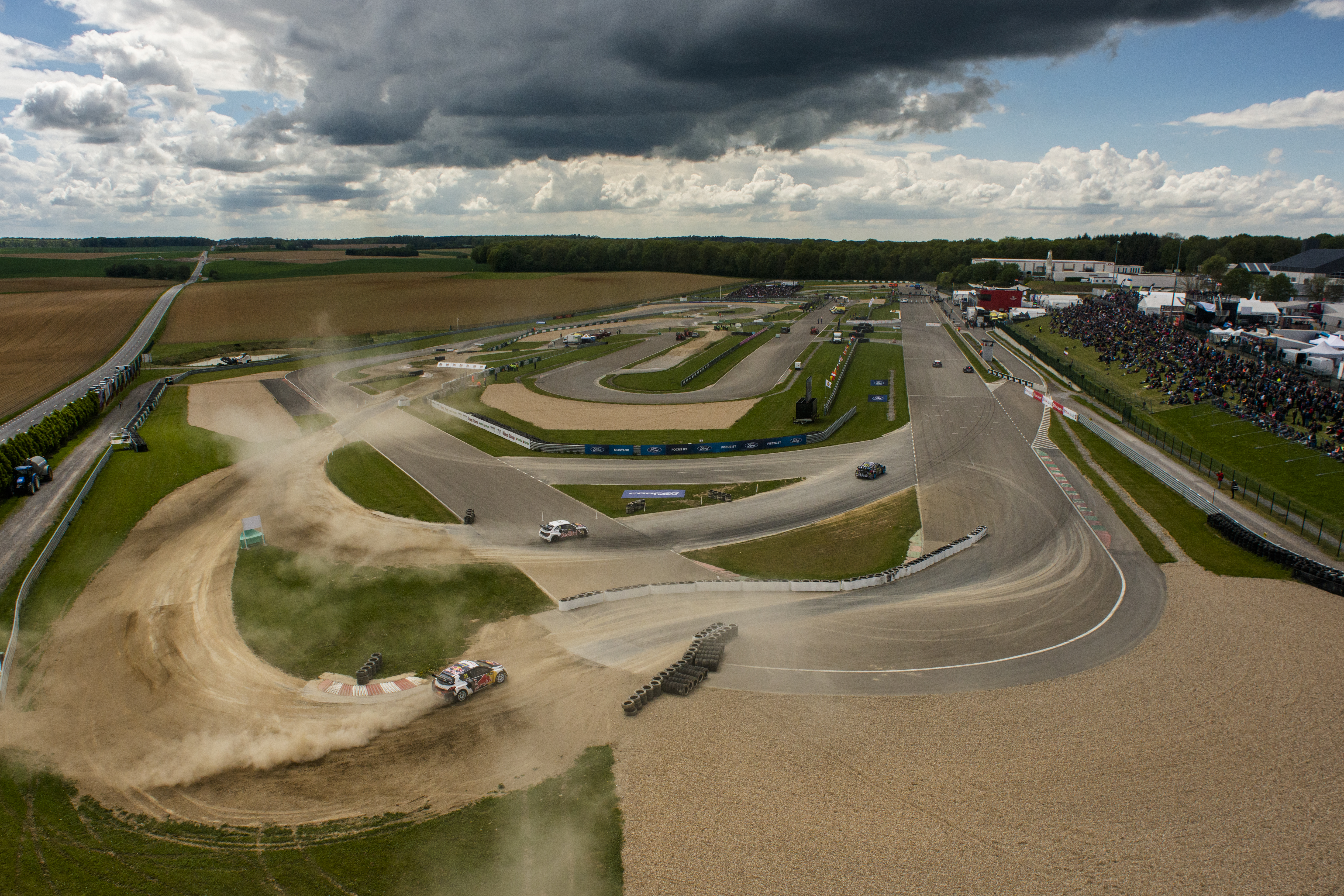 2017 FIA World Rallycross Championship // Round 04, Mettet // Credit: EKS/Jaanus Ree